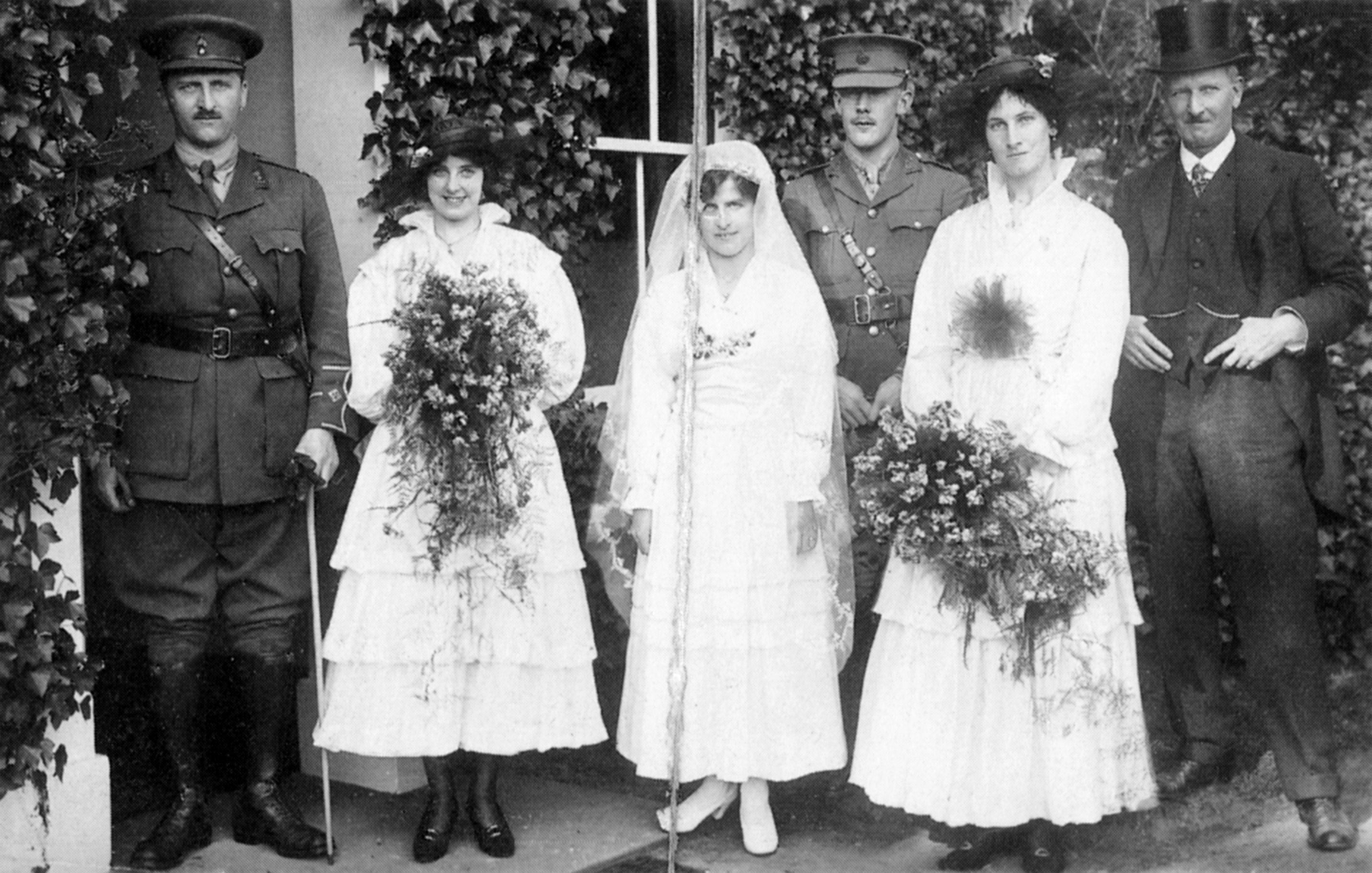 T.E. Hulme (far left), Kate Lechmere (second from left) and others at the wedding of Hulme's sister Kate at Endon 8 April 1916.